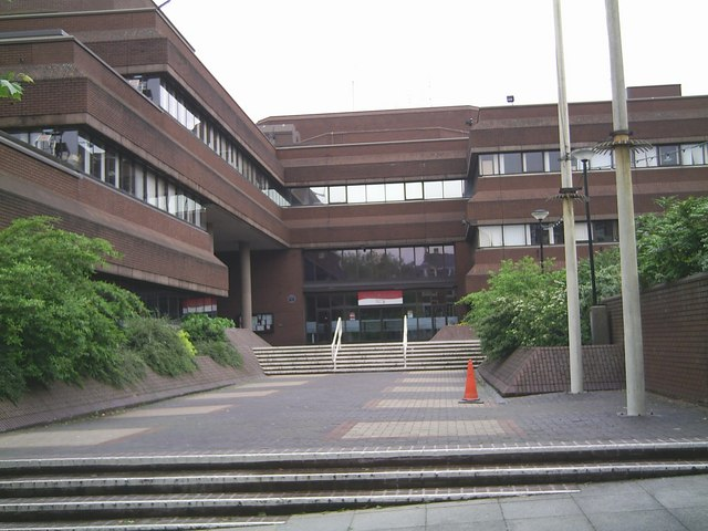 Civic Centre The Council buildings off North Street.